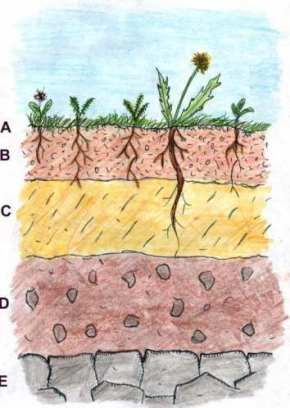 art by Graham Burnett (quercus robur). If re-used a credit would be appreciated but is not compulsory!